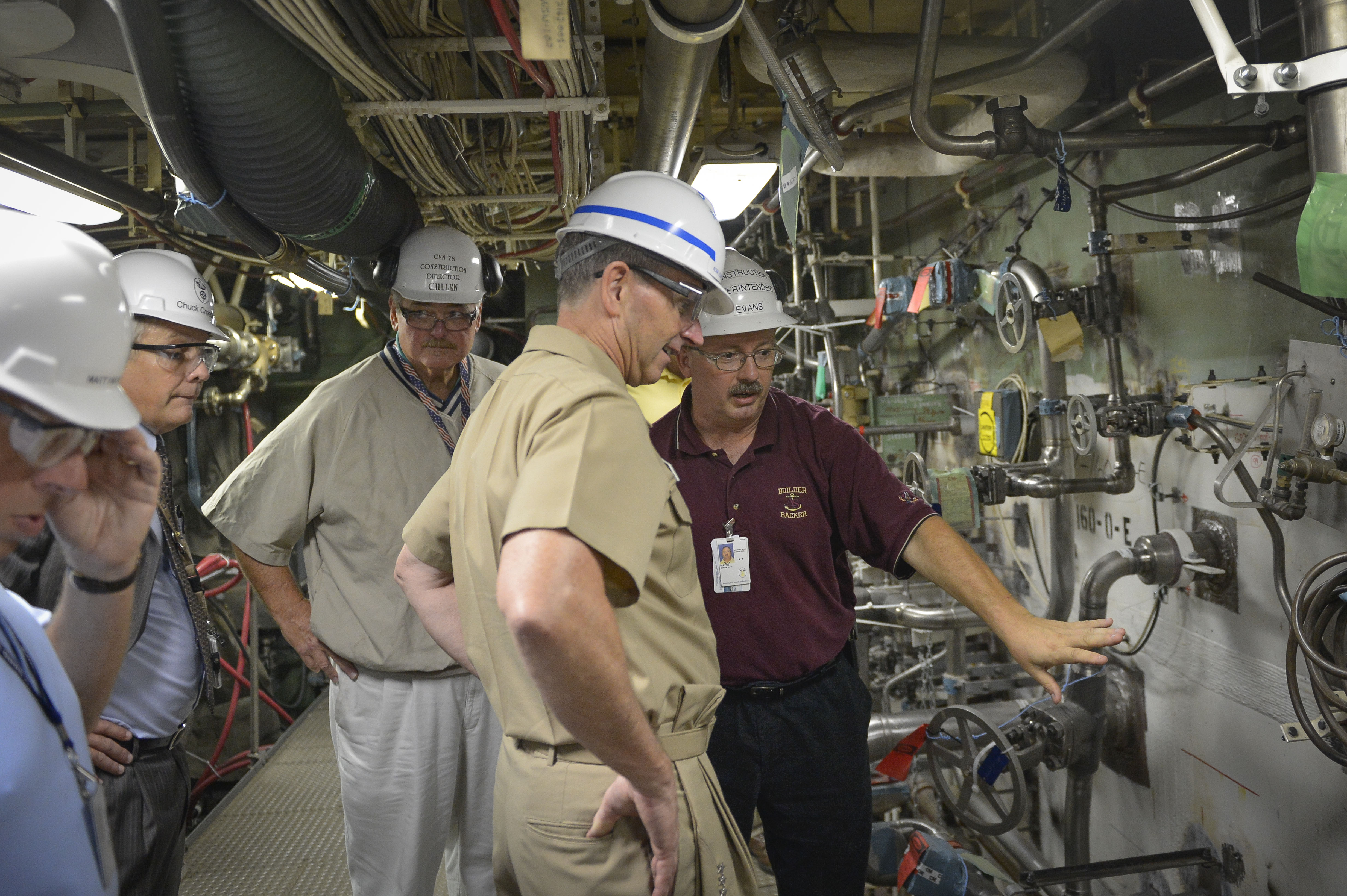 NEWPORT NEWS, Va. (Sept. 14, 2012) Chief of Naval Operations (CNO) Adm. Jonathan Greenert tours the aircraft carrier Pre-Commissioning Unit (PCU) Gerald R. Ford (CVN 78) to personally see the construction efforts of the newest class of nuclear-powered, super carrier while at the Newport News Shipbuilding shipyard. (U.S. Navy photo by Mass Communication Specialist 1st Class Peter D. Lawlor/Released) 120914-N-WL435-159 Join the conversation navylive.dodlive.mil